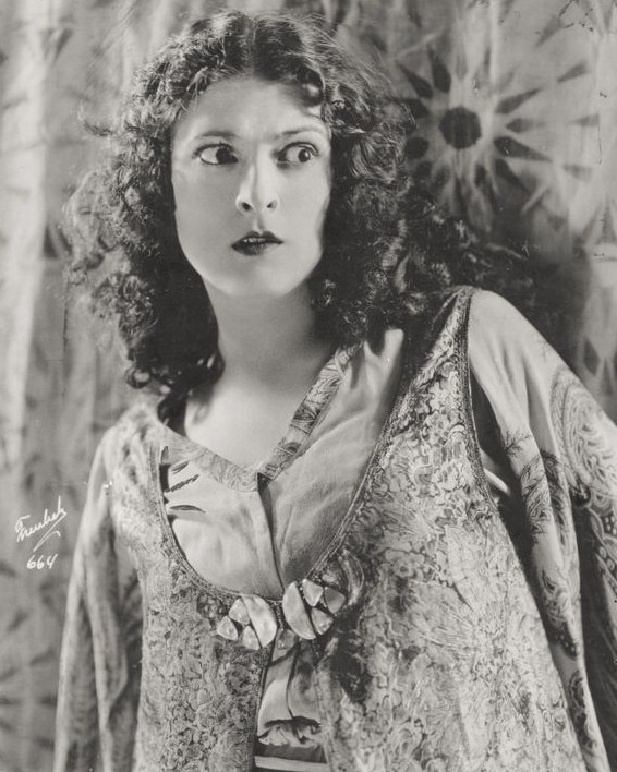 Priscilla Dean in Under Two Flags - publicity still (original image cropped : see source)